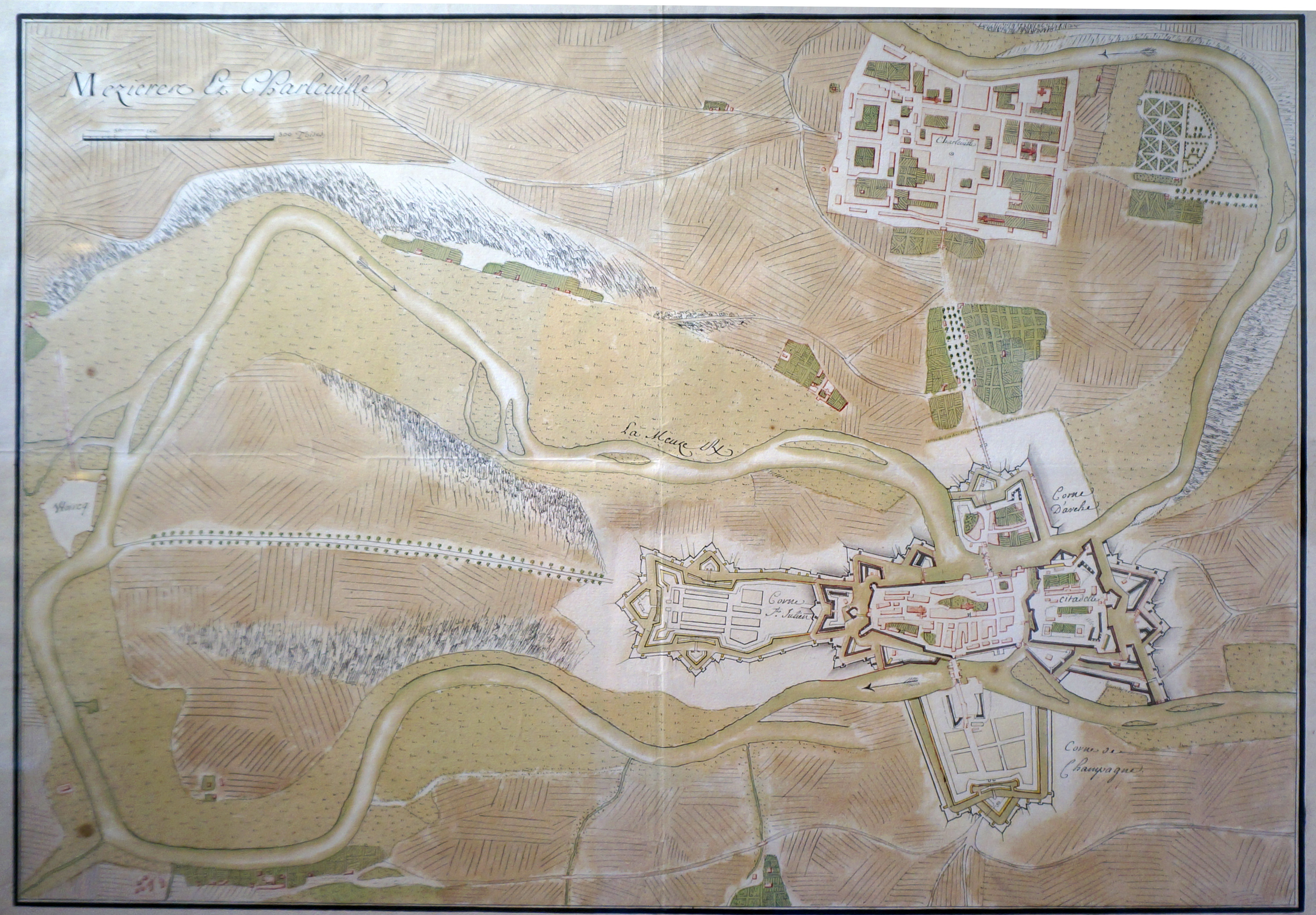 Map of Charleville.